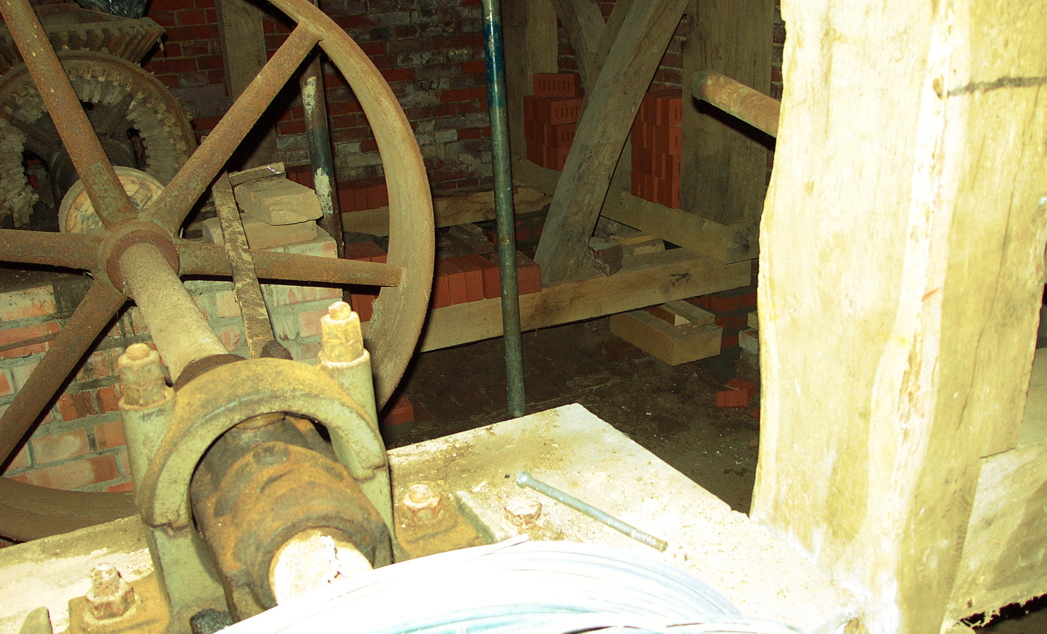 Rockenmuehle, showing part of the mills interior technical equipment